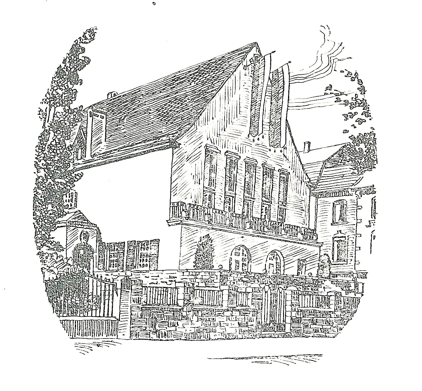 House of student fraternity Corps Suevia Freiburg, Freiburg/Germany, Lessingstrasse 15